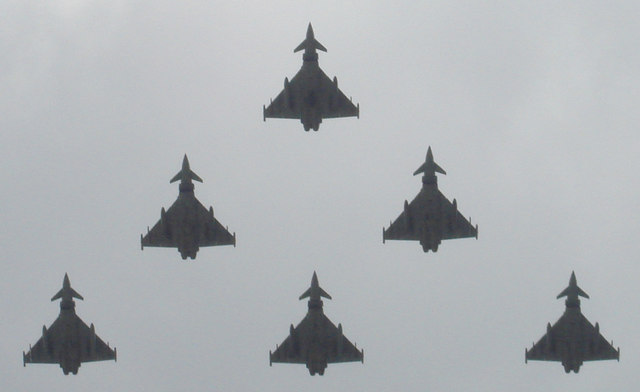 Eurofighter flypast 6 RAF Eurofighter Typhoons take part in the RAF flypast in the Trooping of the Colour 2009